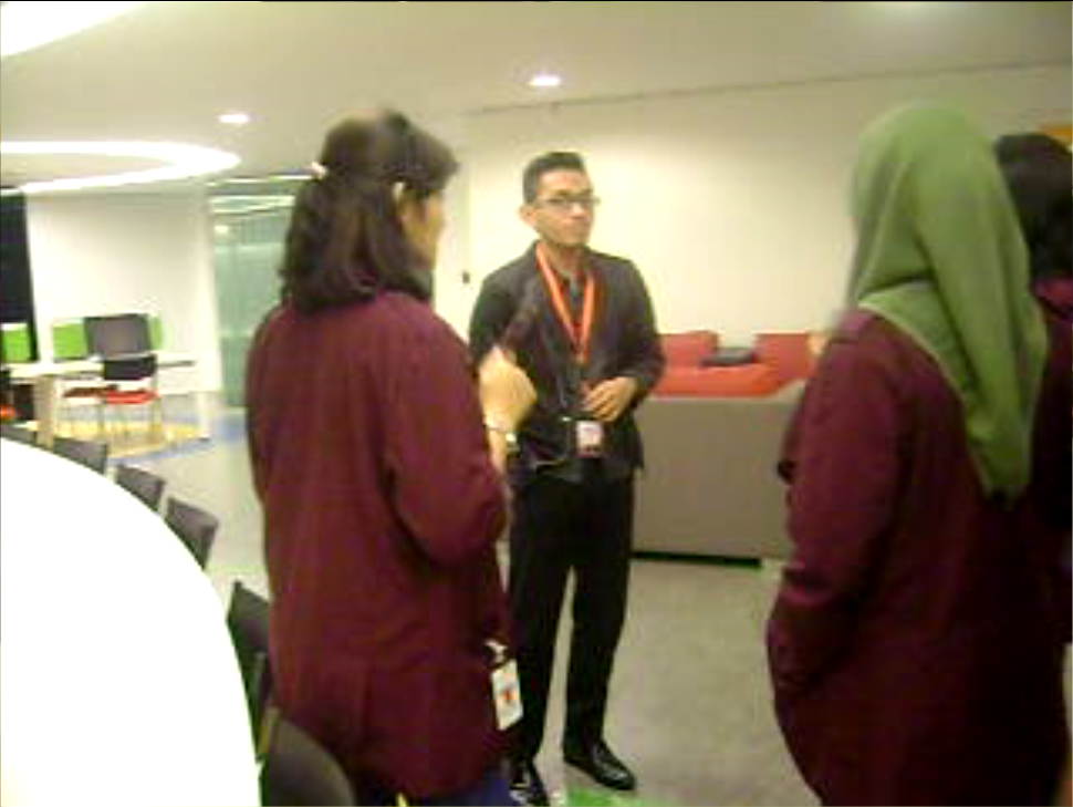 Salah satu contoh komunikasi interpersonal